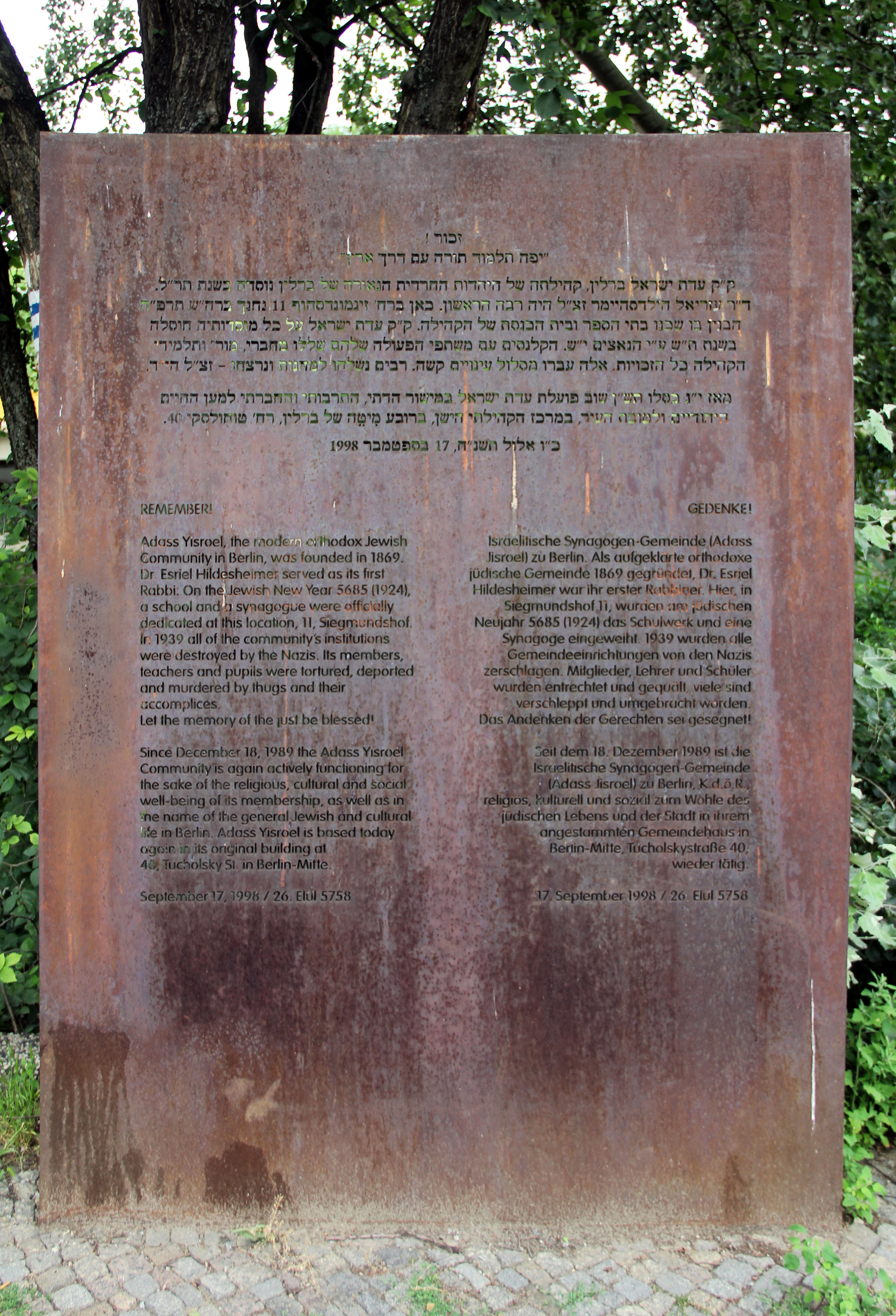 Memorial plaque, Adass Jisroel, Siegmunds Hof 11, Berlin-Hansaviertel, Germany